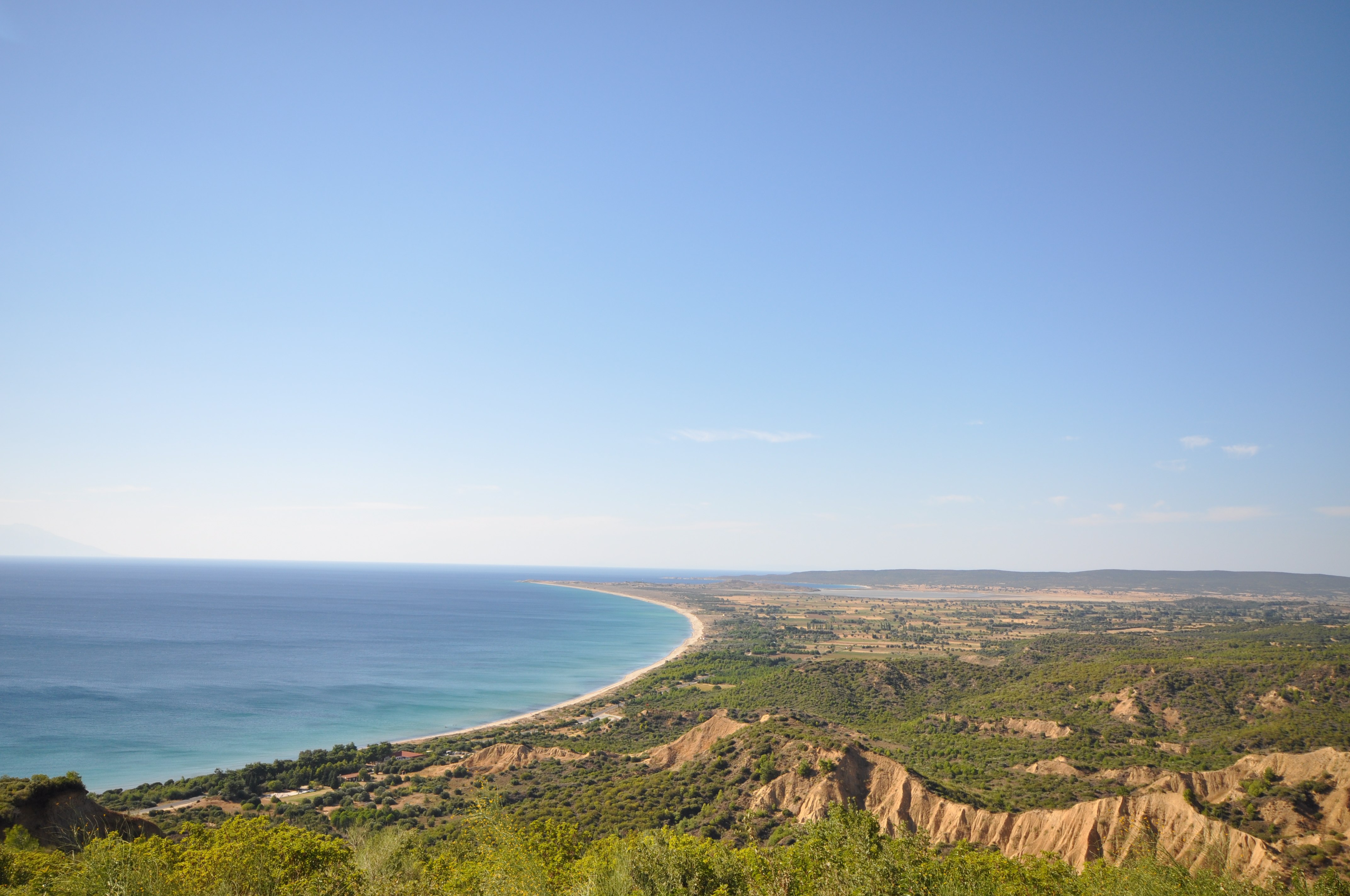 The Gallipoli peninsula is located in Turkish Thrace (or East Thrace), the European part of Turkey, with the Aegean Sea to the west and the Dardanelles straits to the east. Gallipoli derives its name from the Greek "Καλλίπολις" (Kallipolis), meaning "Beautiful City". It is especially famous for the failed Allied offensive on Turkey in 1915 in World War I known as the Gallipoli Campaign